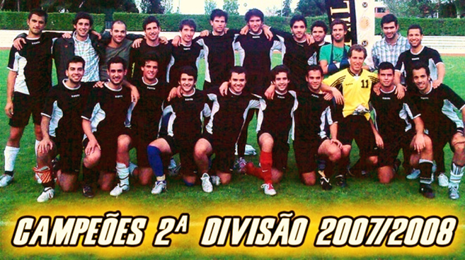 male football team of the Student Committee of the Lisbon Faculty of Medicine